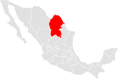 A map of the mexican state of coahuila made by me